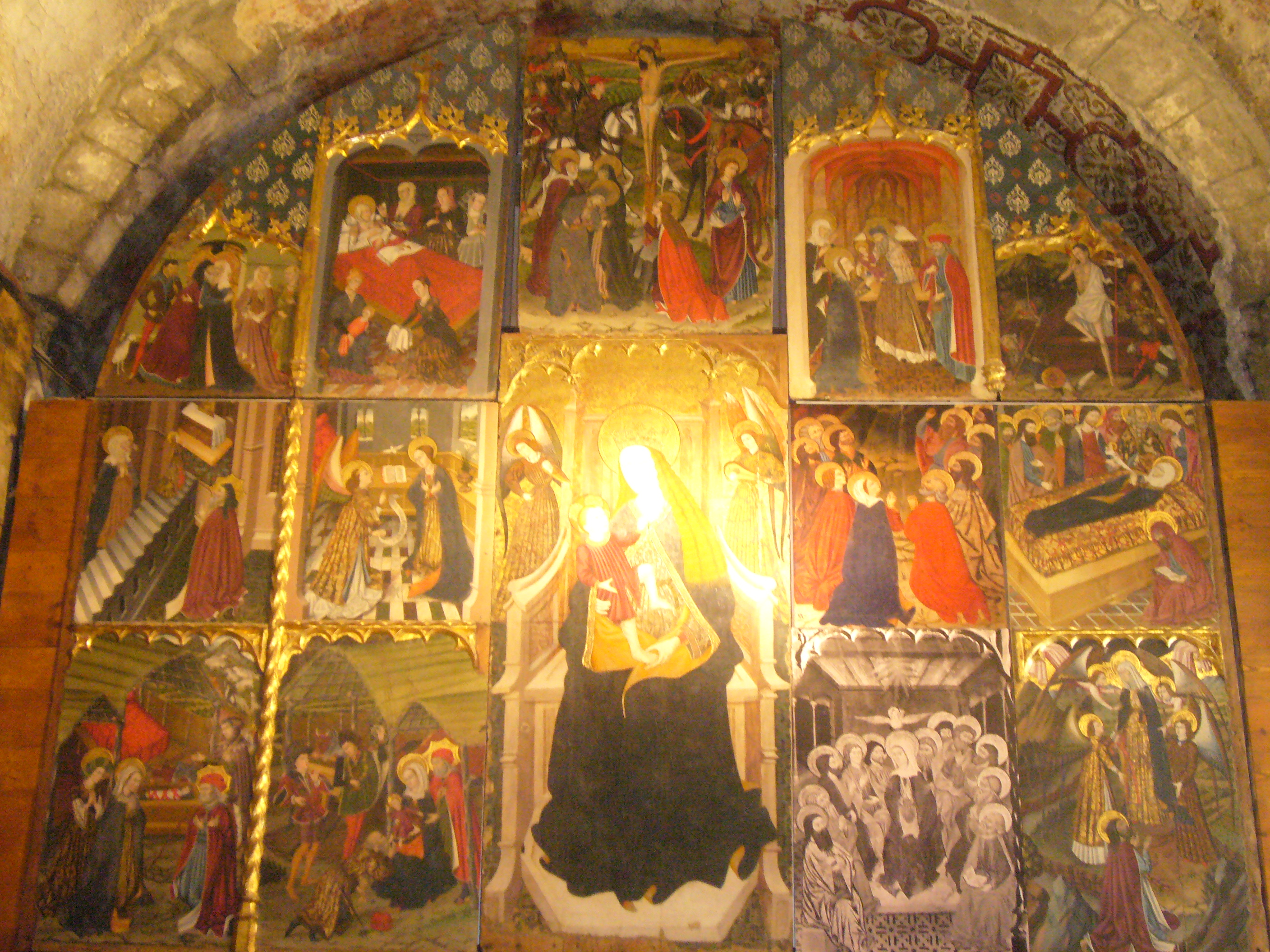 Interior of Santa Maria d'Arties. Main altarpiece, 15th century, with scenes of the life of Saint Mary